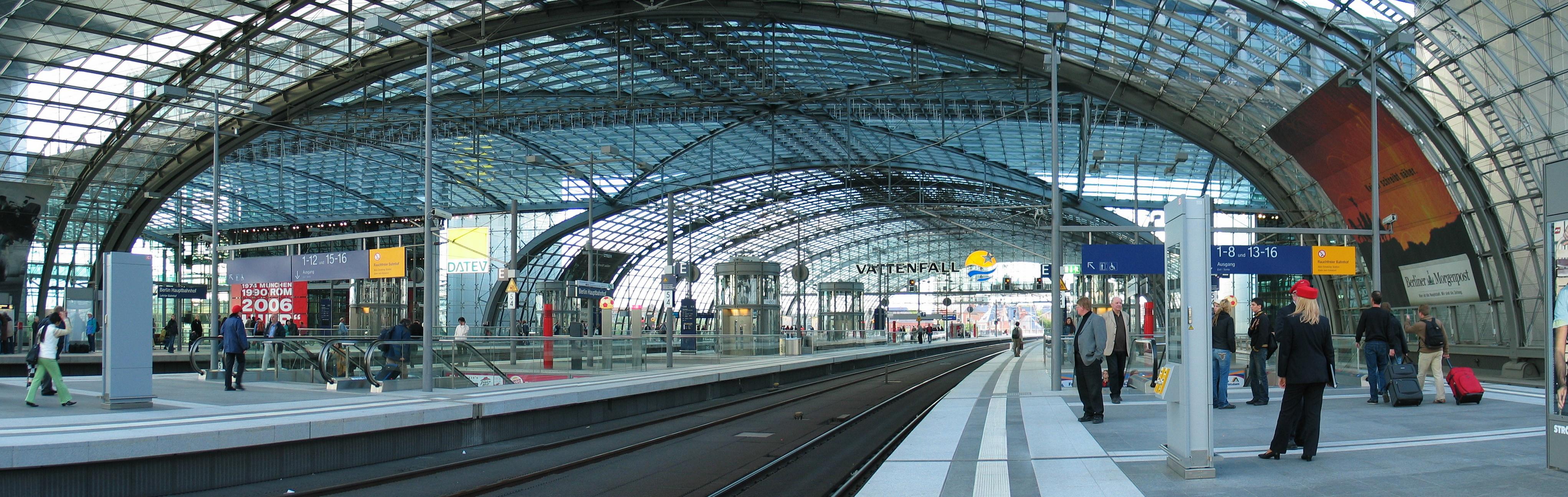 The Main Station of Berlin, Germany. Upper level with the east-west running tracks.